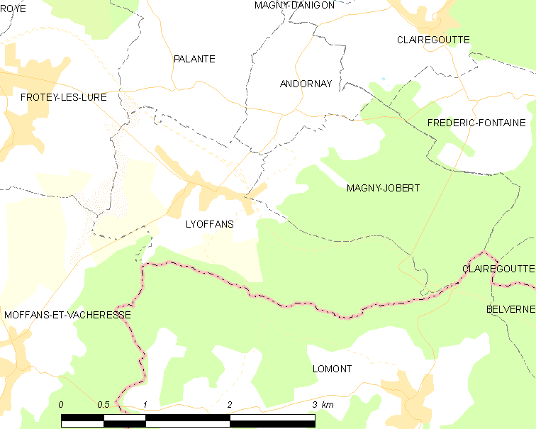 Map of French municipality